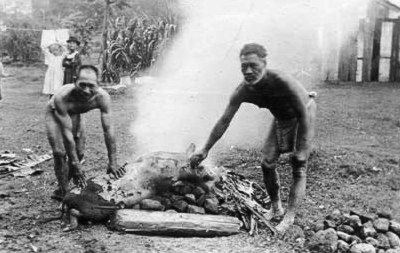 Hawaiian men roasting pig for a luau